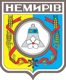 Coat of Arms of Nemyriv (Vinitsa region, Ukraine)